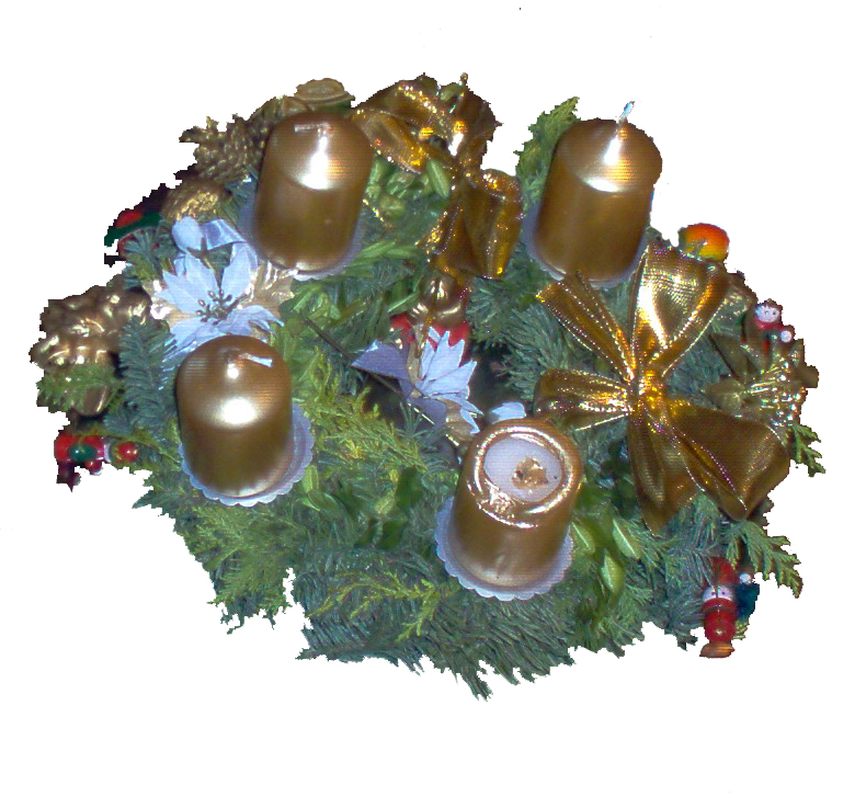 Advent wreath - One more of the four candles are lit every Sunday of advent until Christmas.